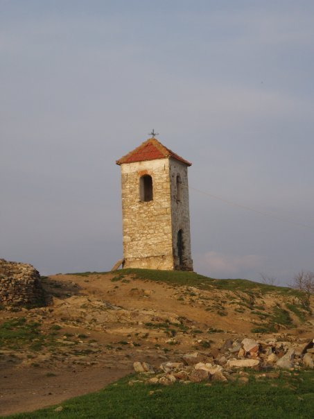 crkva